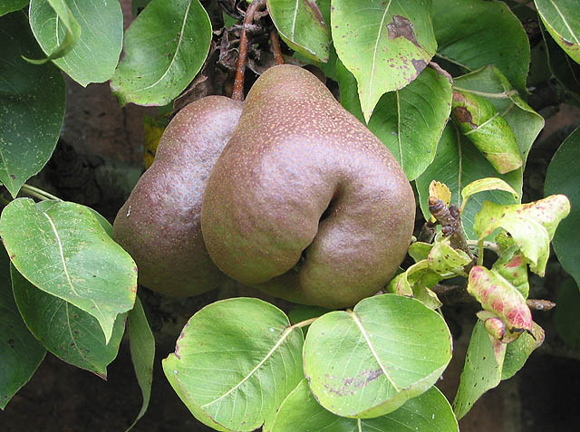 Worcester Black Pears. A centuries old variety, possibly brought here by the Romans. The dull, purpley skin gives the fruit a black appearance and hence the name. Looking very much at home in the Westbury Court Garden at Westbury-on-Severn.